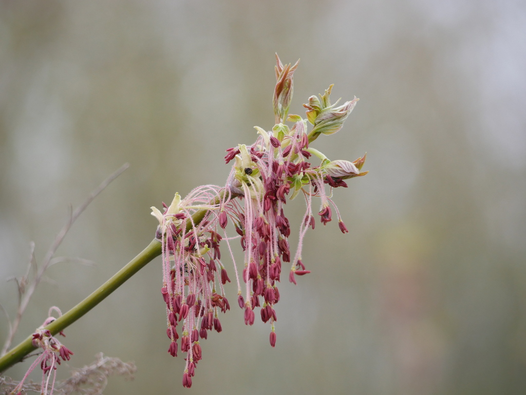 boxelder (Acer negundo), 14656 Brieselang, Germany